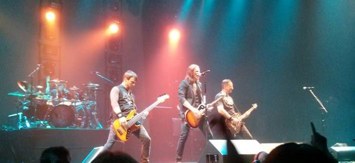 Alter Bridge performing at the Capital FM Arena in Nottingham, UK on October 16th 2013 as part of the European Fortress tour.